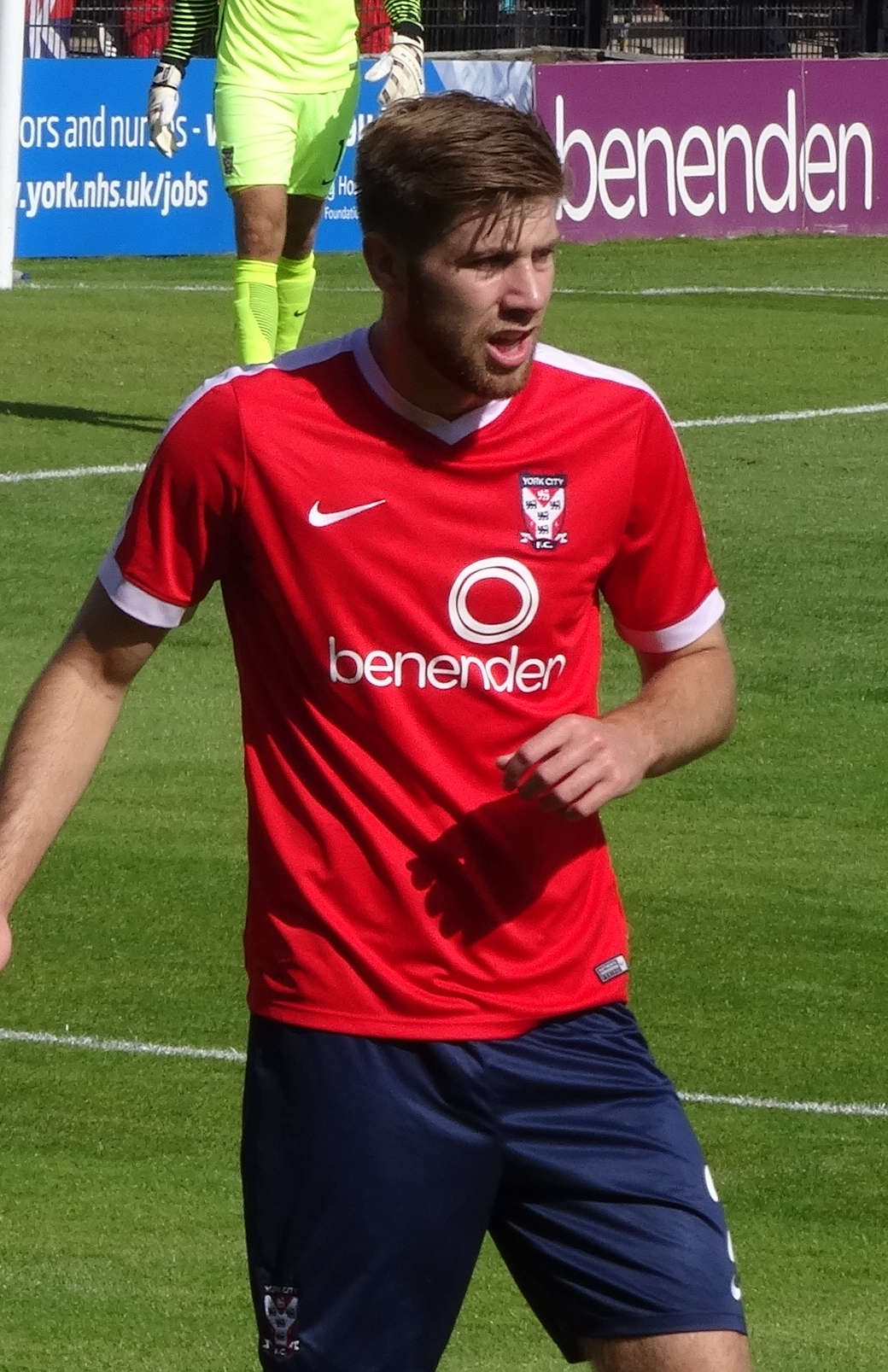 Shaun Rooney playing for York City against Boreham Wood at Bootham Crescent, York on 13 August 2016